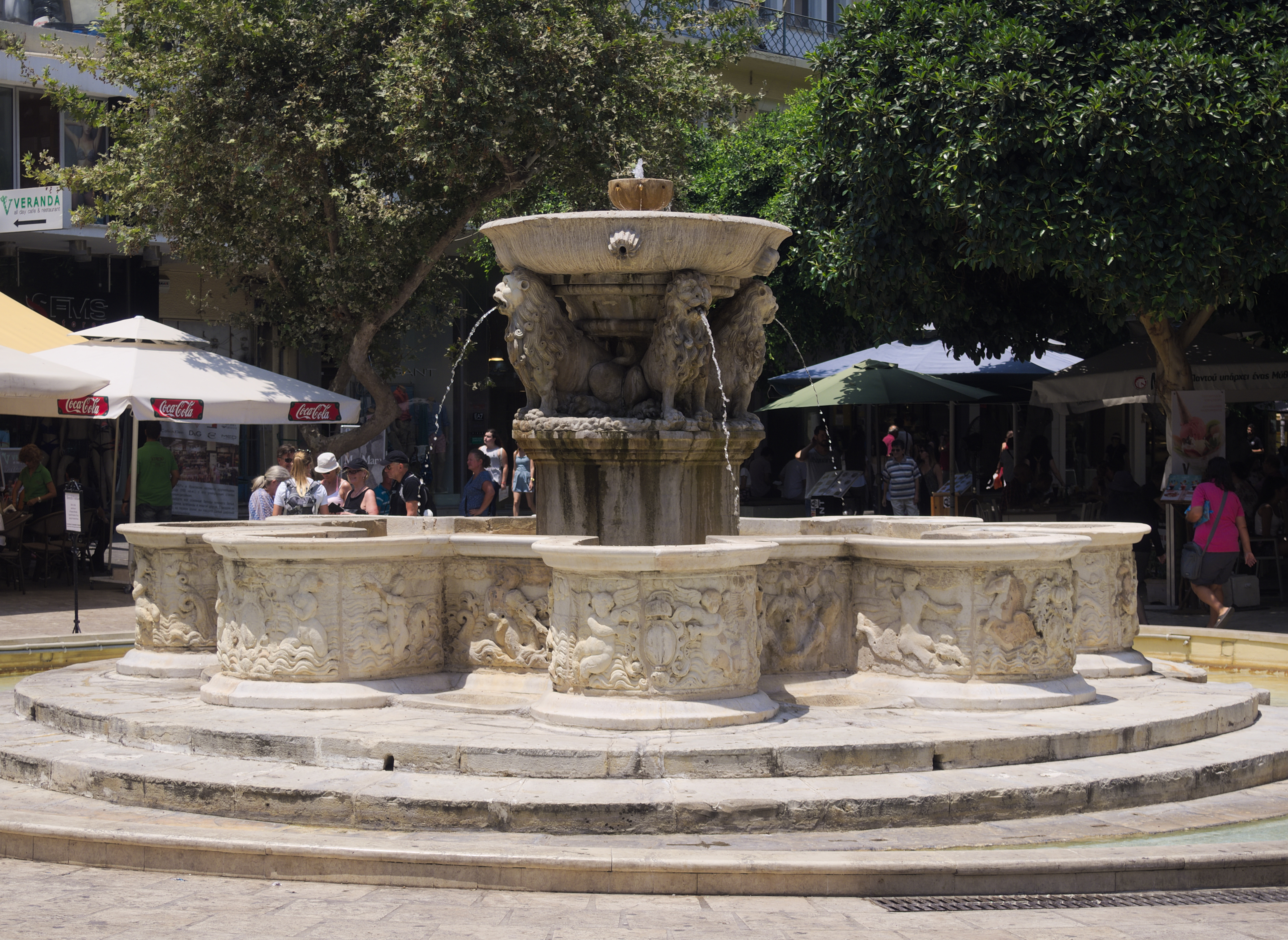 View of Morosini (Liontaria) fountain.